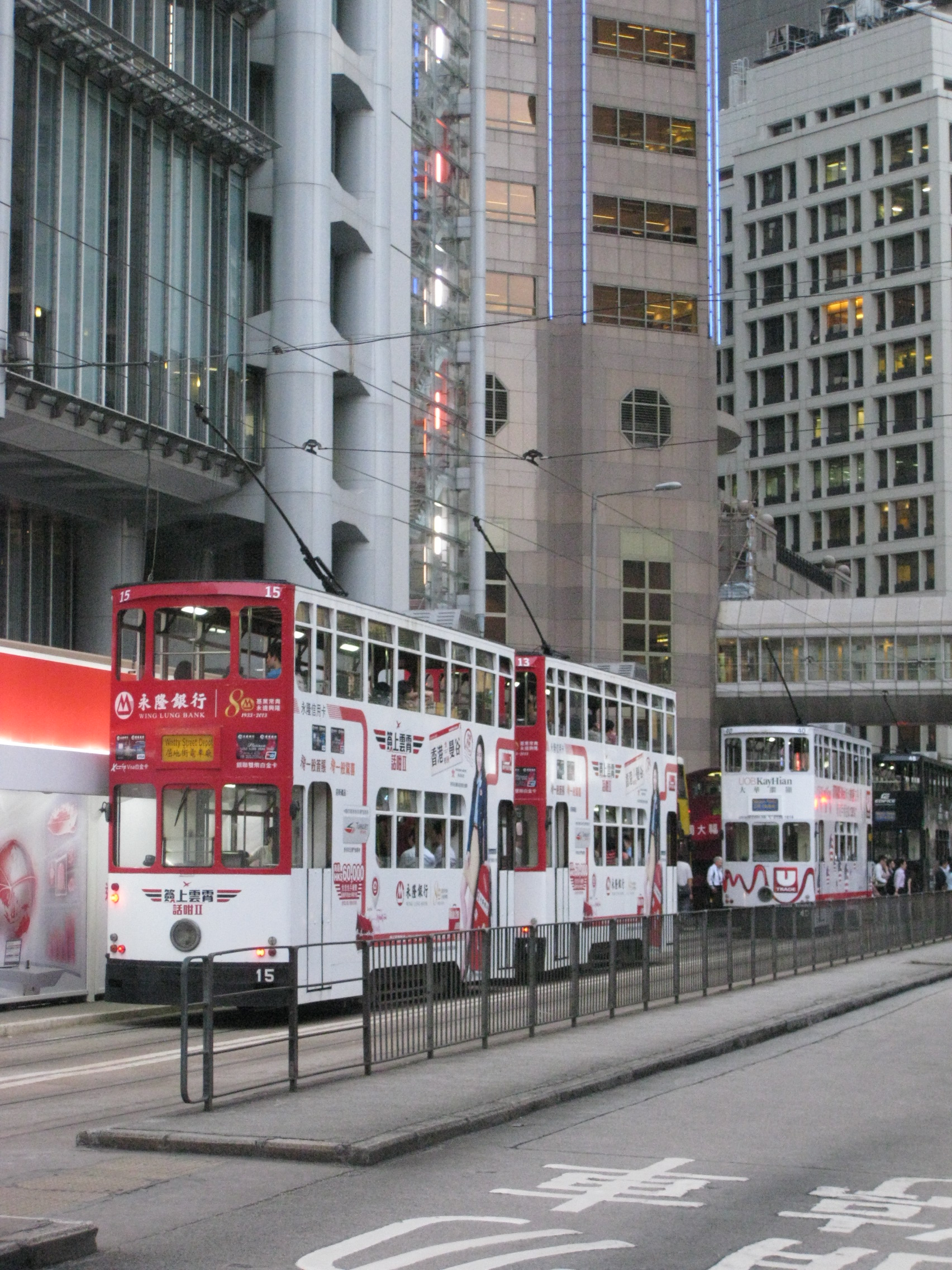 Tram Nos. 15 and 13 (in the background Nos. 40 and 48) in Central, Hong Kong